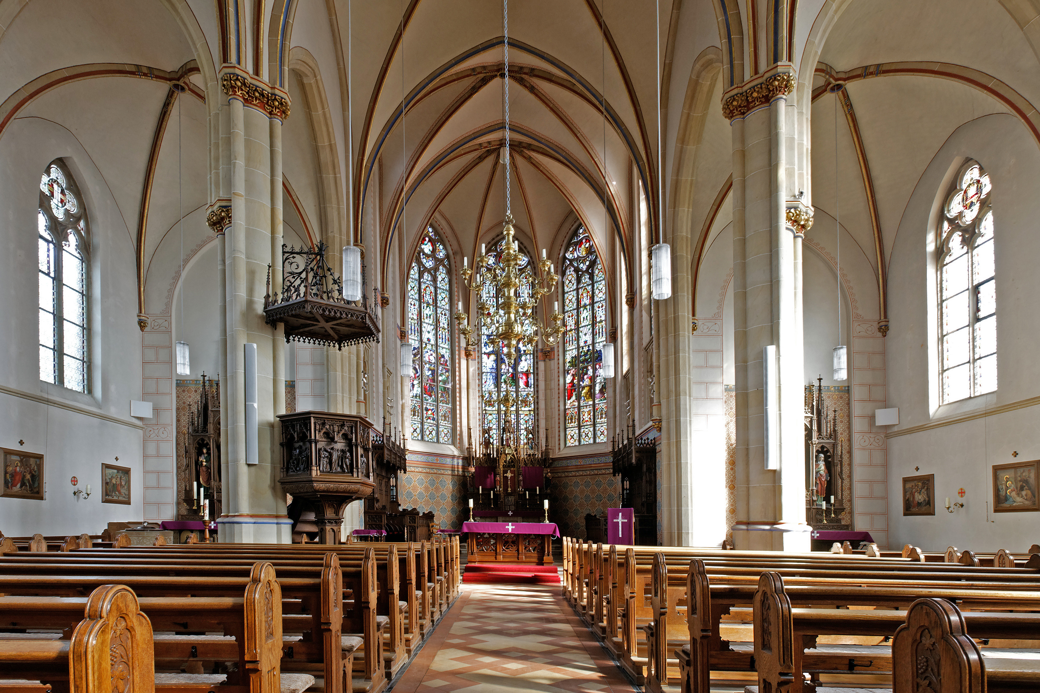 Inside the church, Cappeln (Oldenburg), Germany